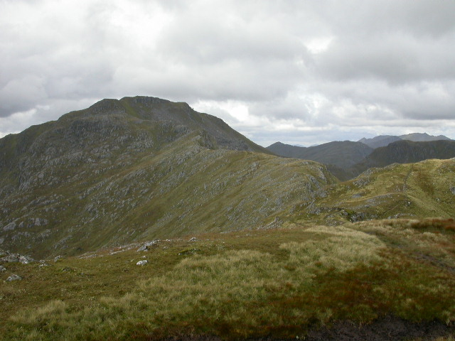 Sgurr a’ Mhaoraich from Sgurr Choire nan Eiricheallach